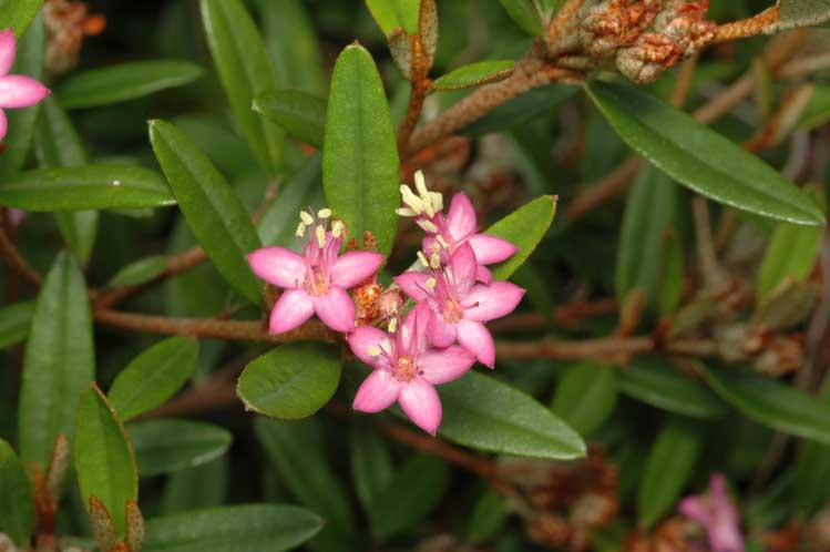 Phebalium woombye in the North Coast Regional Botanic Gardens, Coffs Harbour, New South Wales